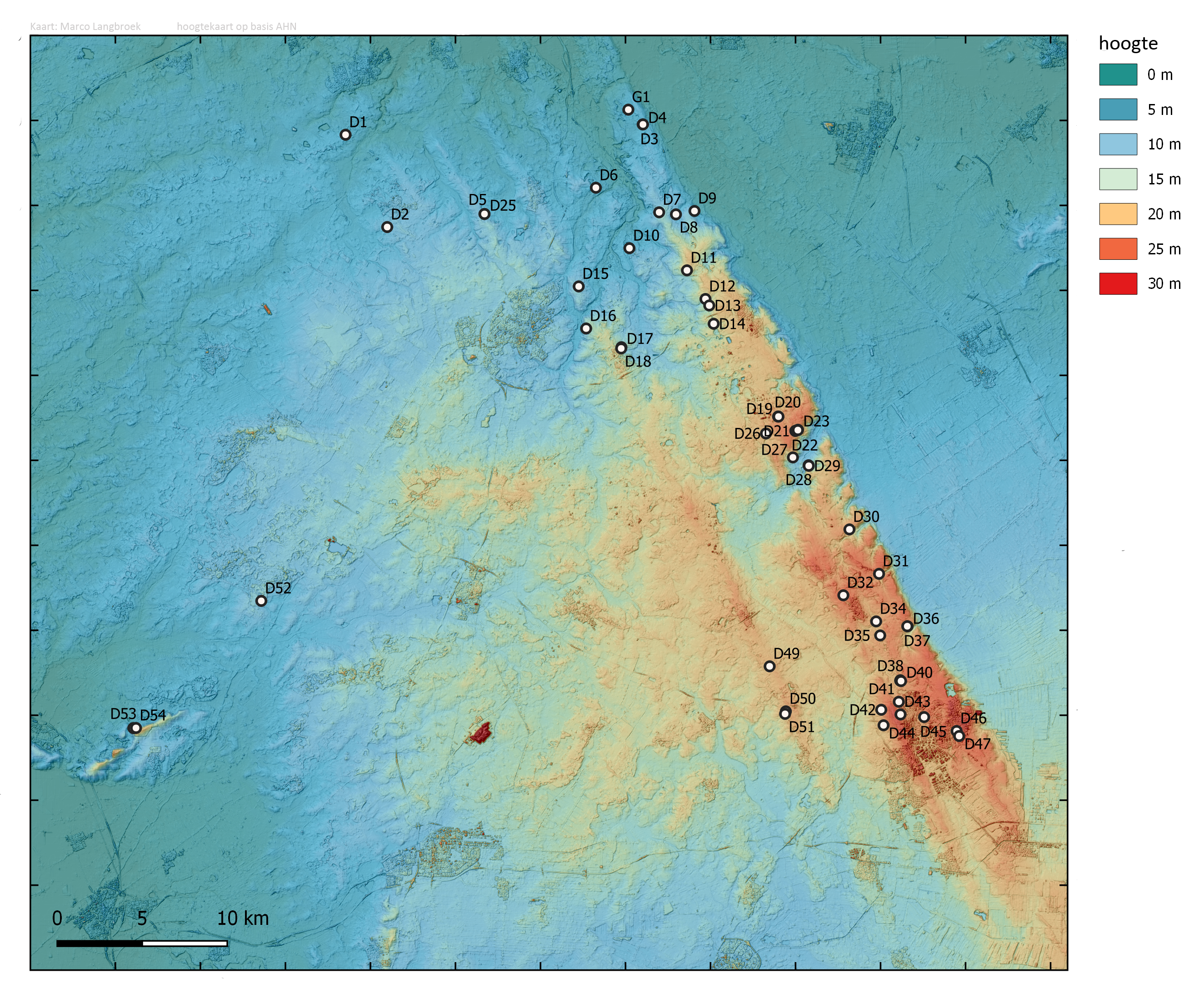 altitude/relief map of Drente province in the Netherlands, with the distribution of hunebedden (TRB dolmens)